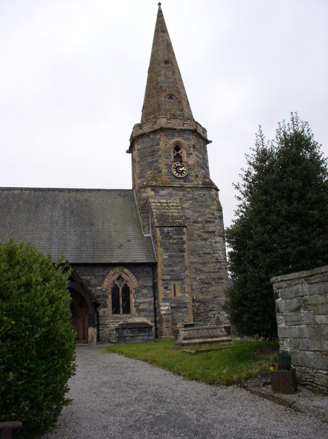 Steeple of St Trillo's parish church, Llandrillo, Denbighshire (formerly Merionethshire), seen from the north